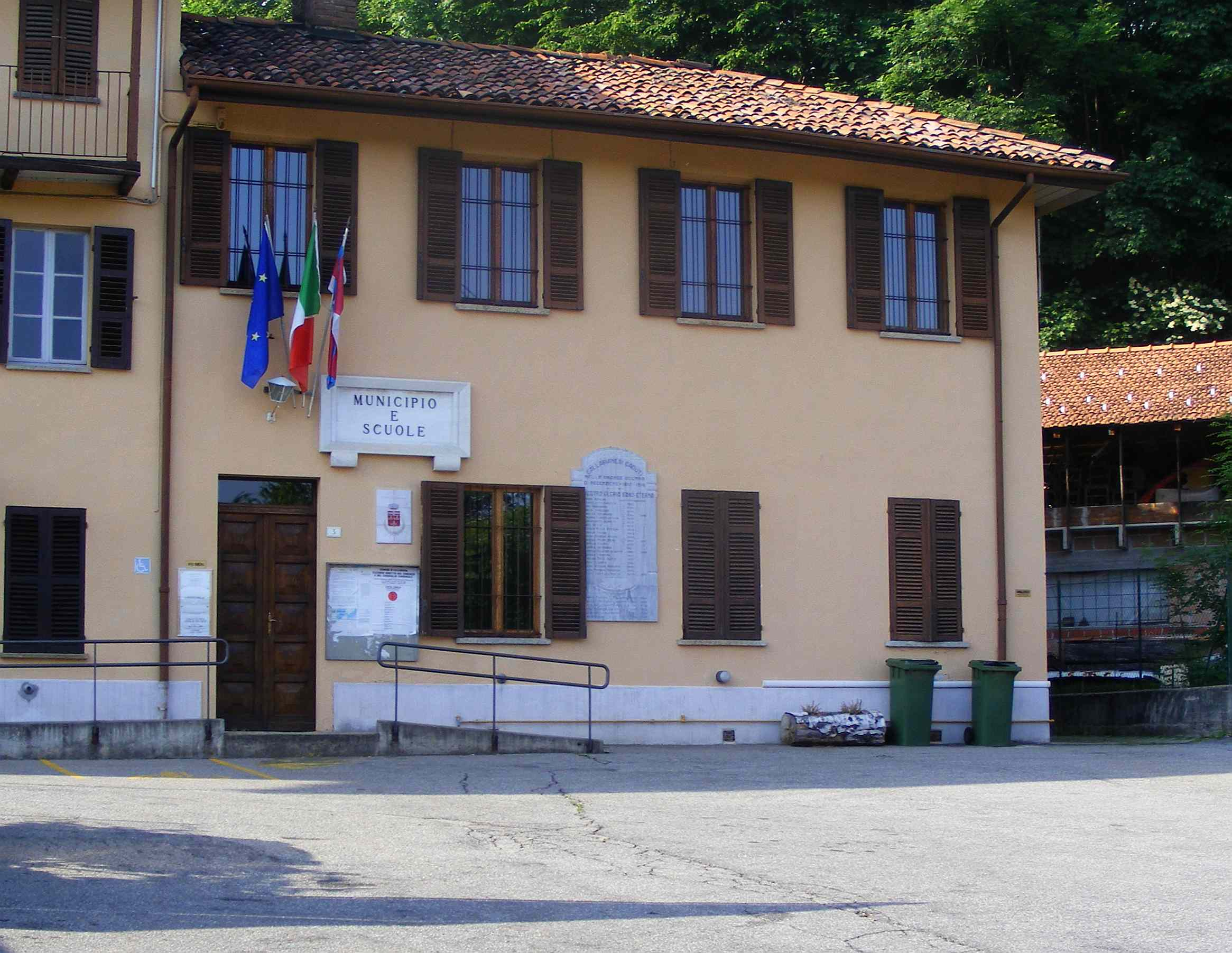 Callabiana (BI, Italy): fraz. Fusero, the town hall.